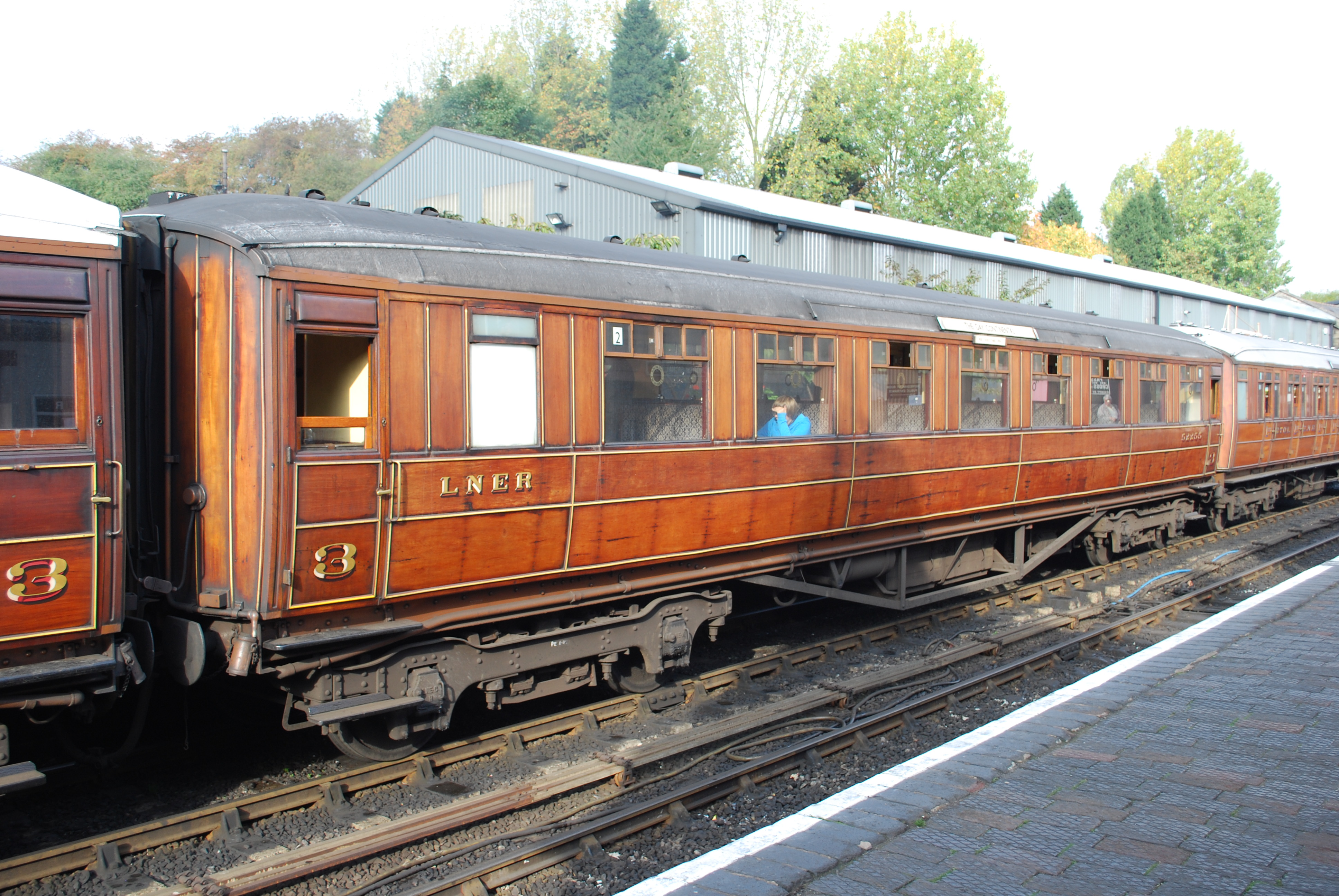 LNER Gresley 60' TO (Vestibuled Third Open) No.52255 (later No.13547) in the beautiful varnished teak livery. Diagram 186, Order No.594, built at York, 1935. At Bridgnorth, Severn Valley Railway, 09/11.